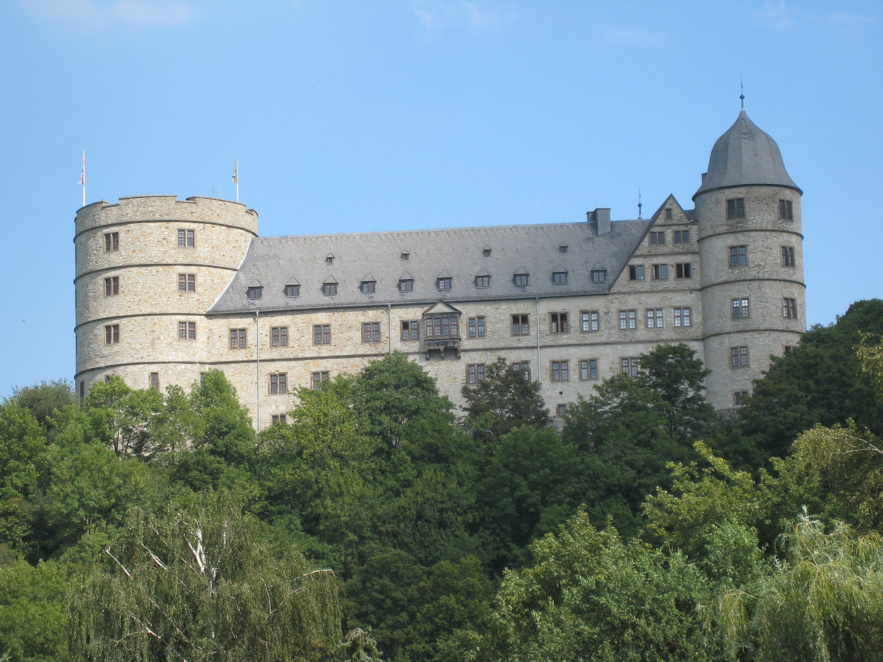 Wewelsburg